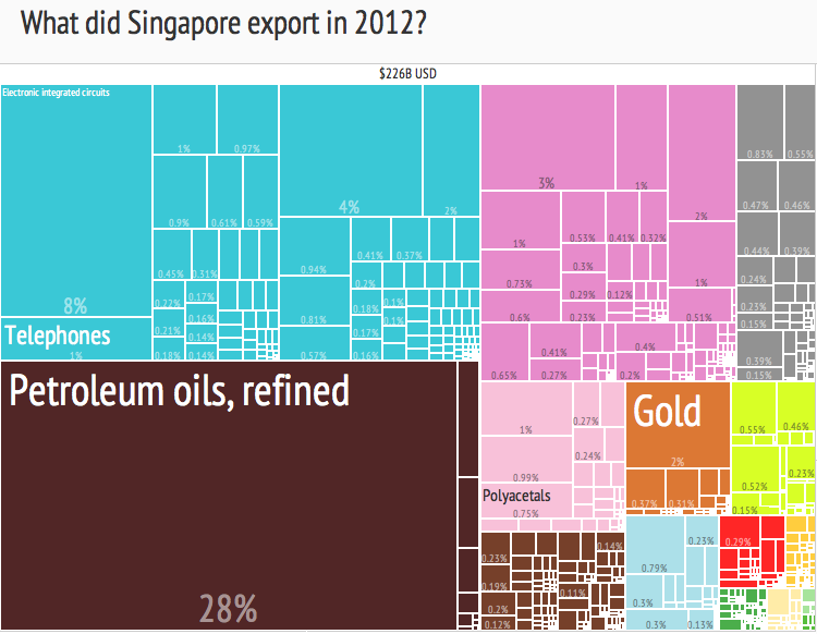 2012 Singapore Products Export Treemap